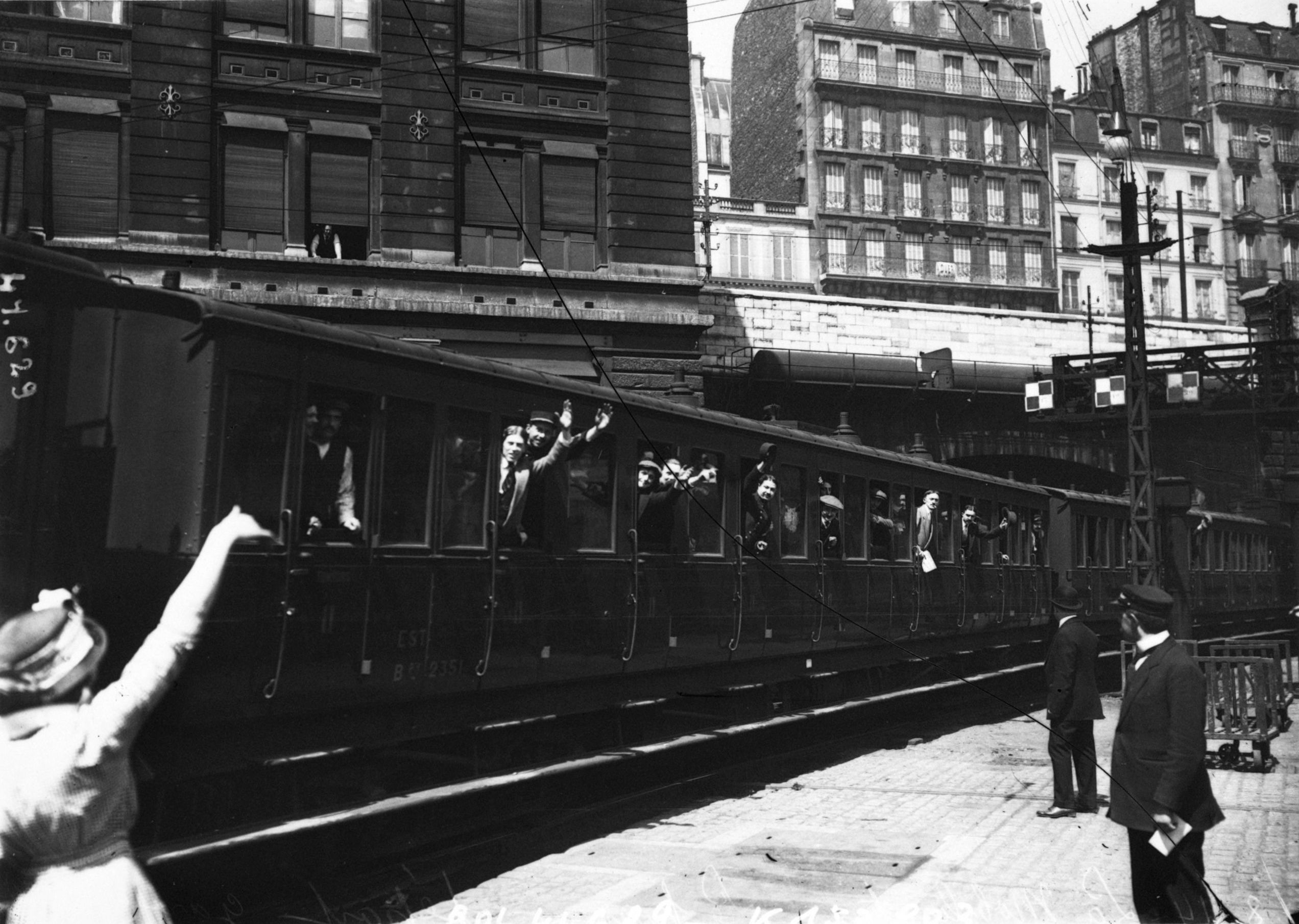 First departures of trains of mobilized people from gare de l'Est (Paris) in august 1914.